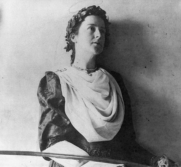 Amercian poet and essayist Louise Imogen Guiney (1861-1920) in Saint Barbara costume with laurel wreath, pearls, book and (pencilled-in) halo.